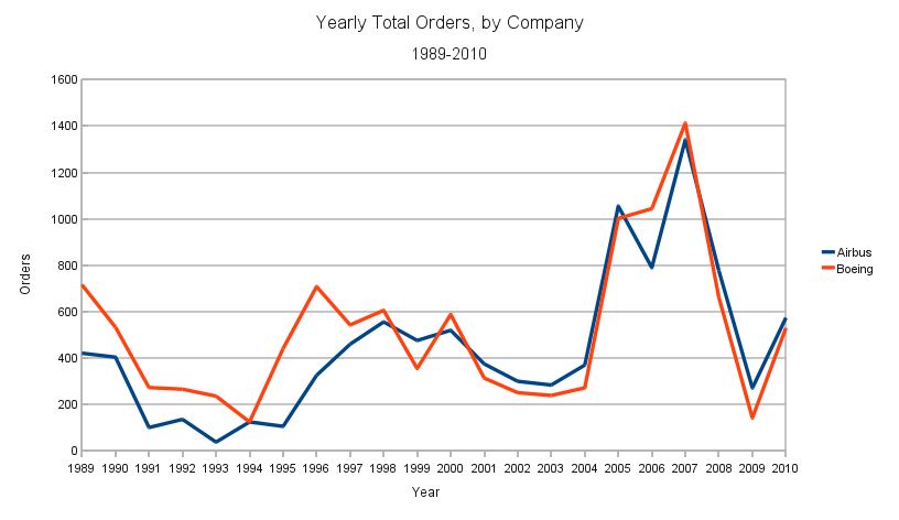 Graph of data from